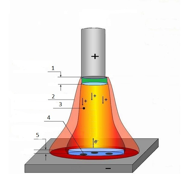 Строение электрической дуги